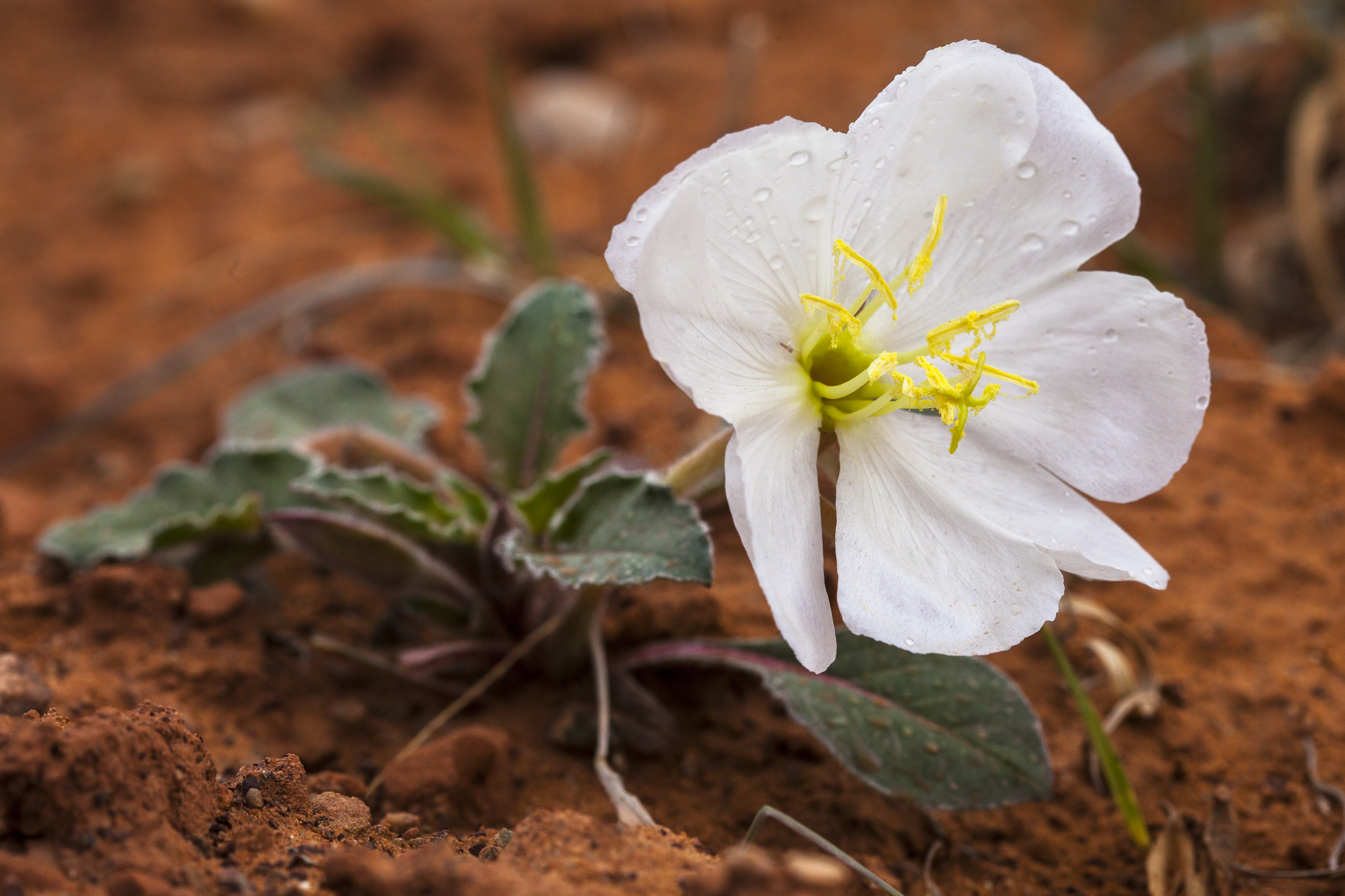 (NPS photo by Jacob W. Frank)